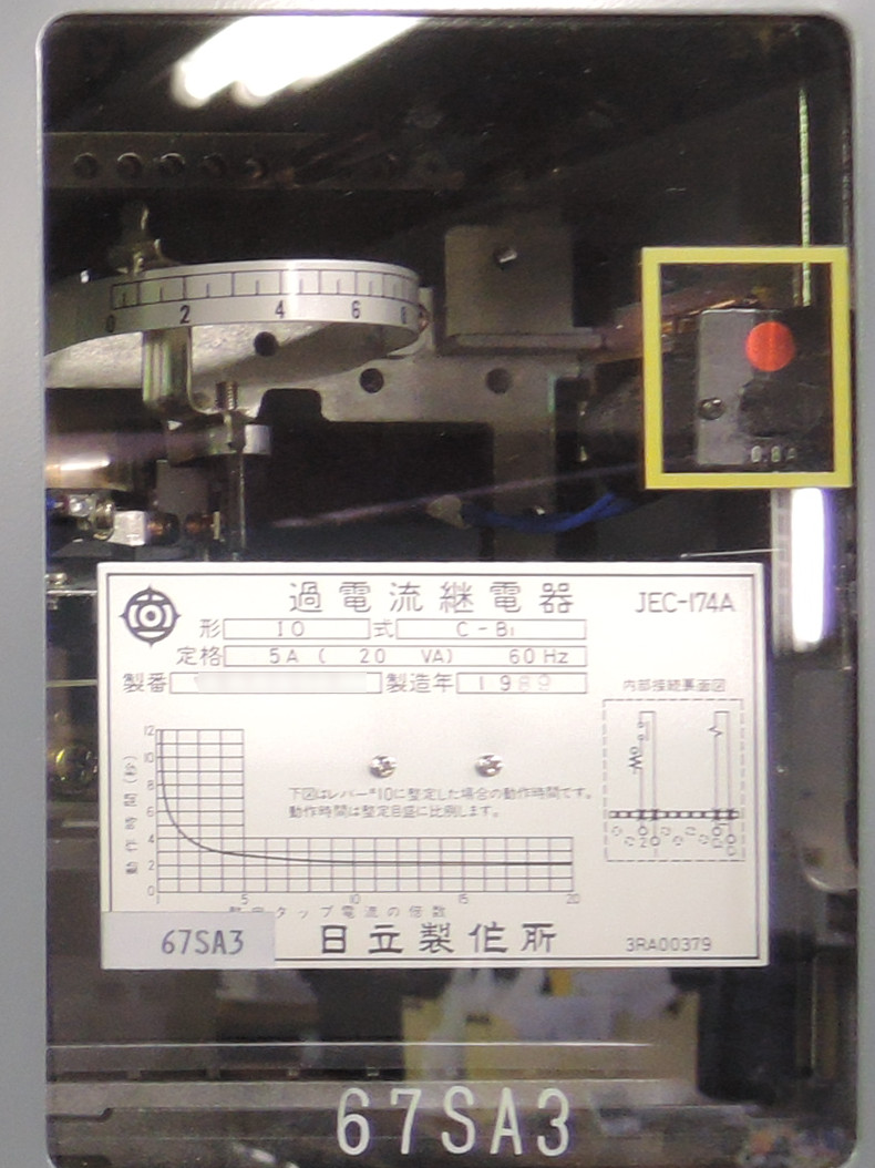 Induction disc overcurrent relay manufactured by Hitachi in 1980s. When input current is above current limit, a disk rotates, the contact moves left and reaches the fixed contact. The scale above the panel indicates the delay-time.